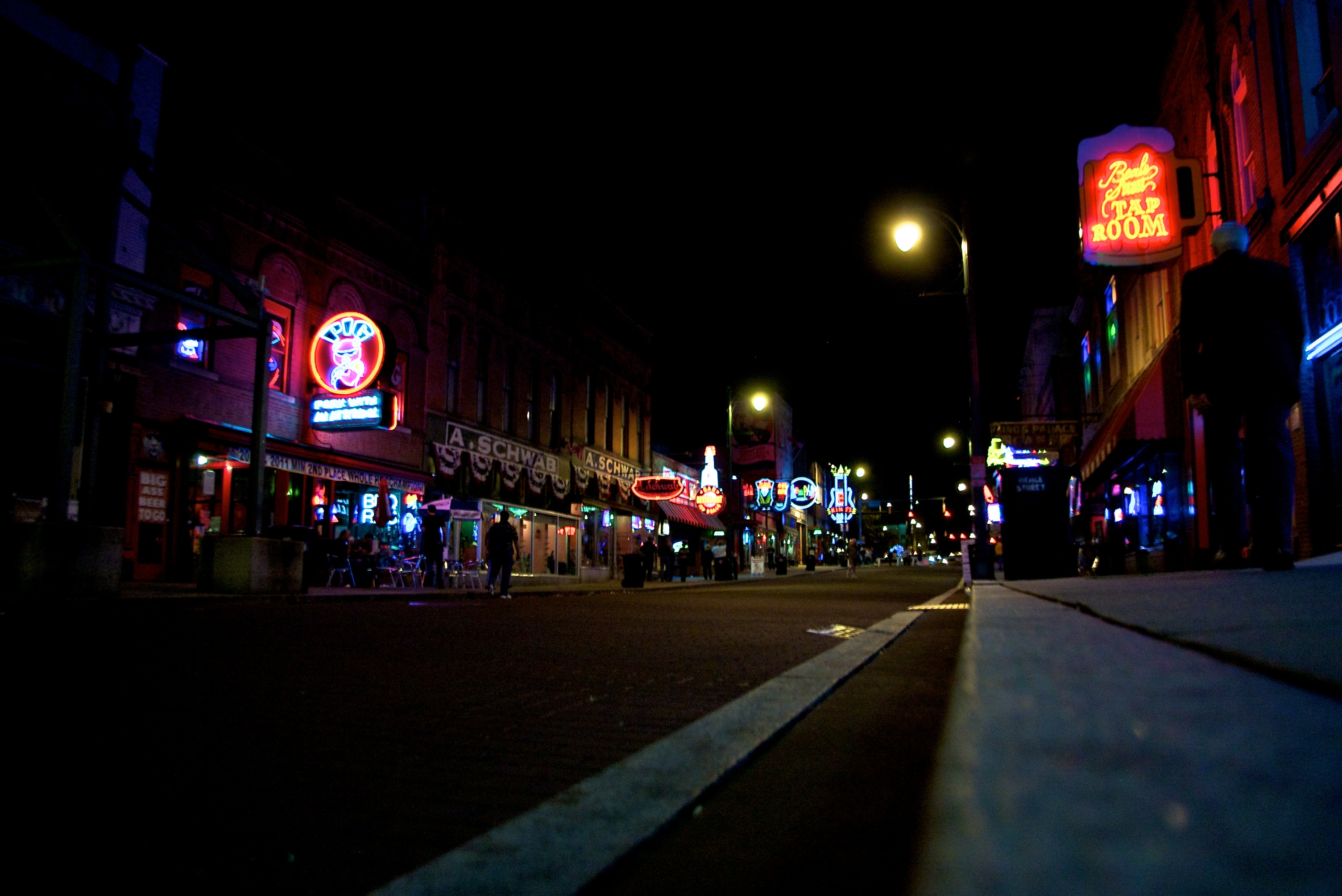 Monday Night Blues